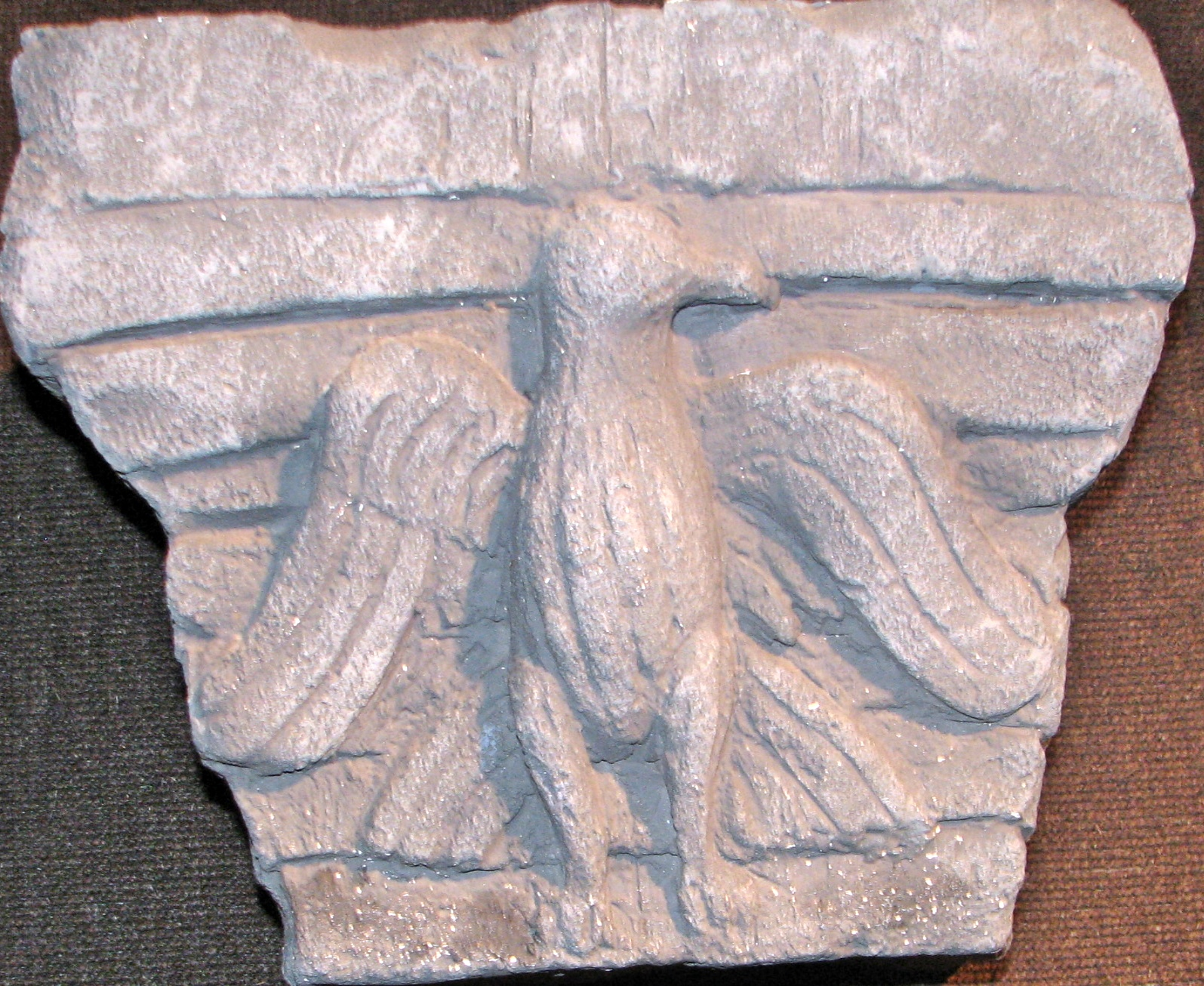 Exhibit depicting a capital of a pillar belonging to Kalonymos house, Mainz, from the twentieth century. The exhibit is at the Diaspora Museum, Tel Aviv - Beit Hatefutsot. (Photo was taken by User:Sodabottle).